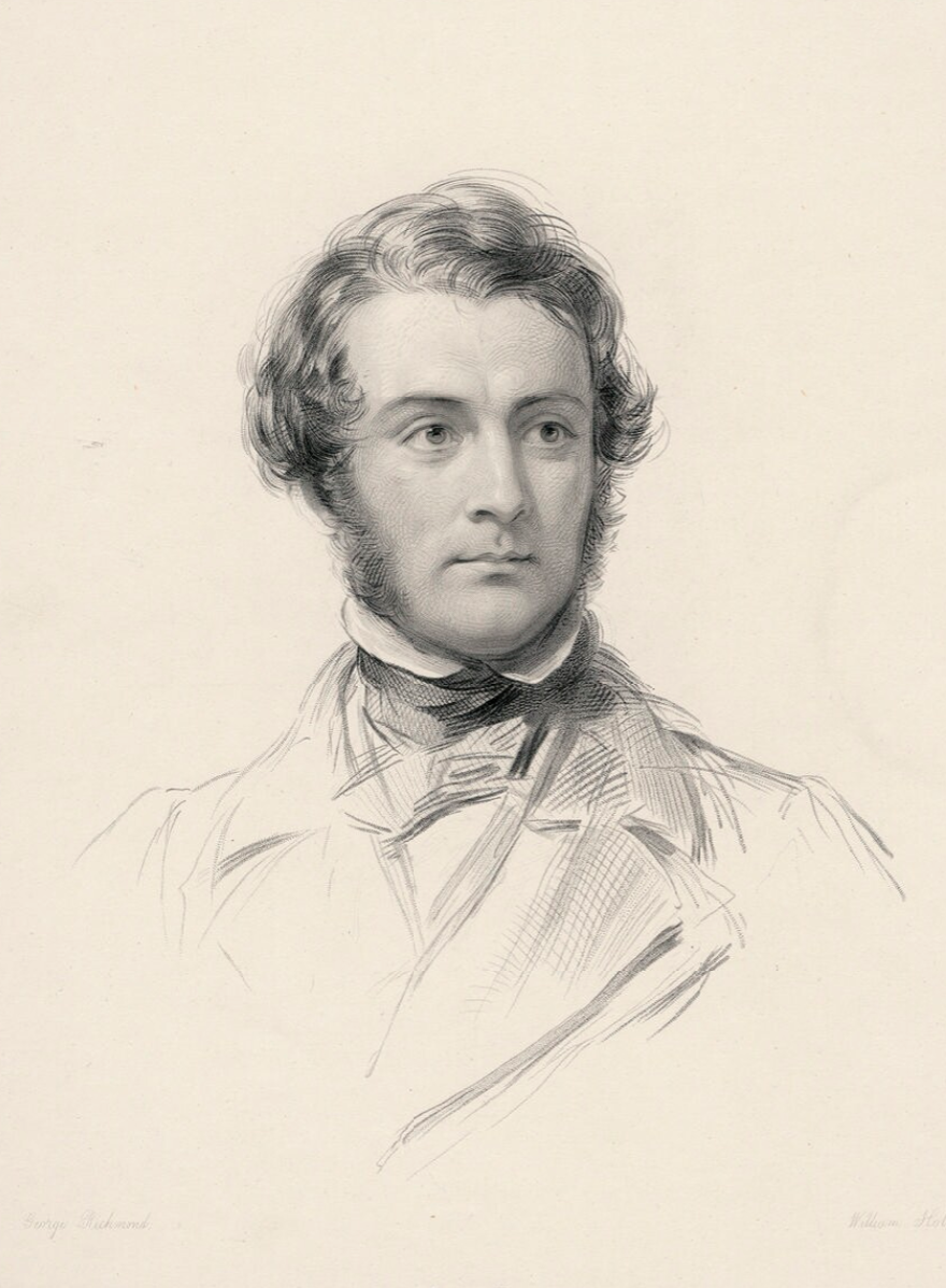 Portrait drawing of Augustus Stafford (1811–1857), original surname O'Brien, British politician.